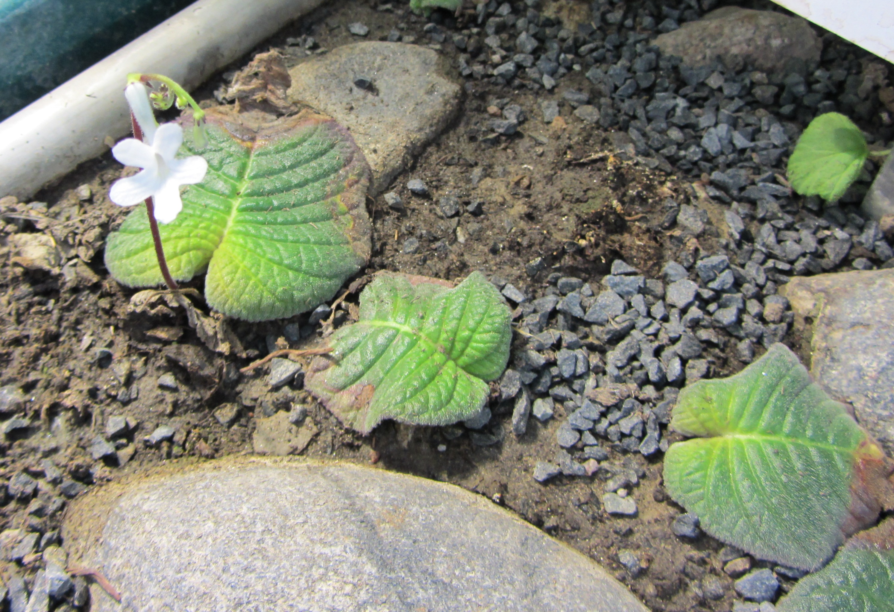 Streptocarpus prolixus (Cape primrose) in the Glasshouses of Kaisaniemi Botanical Garden